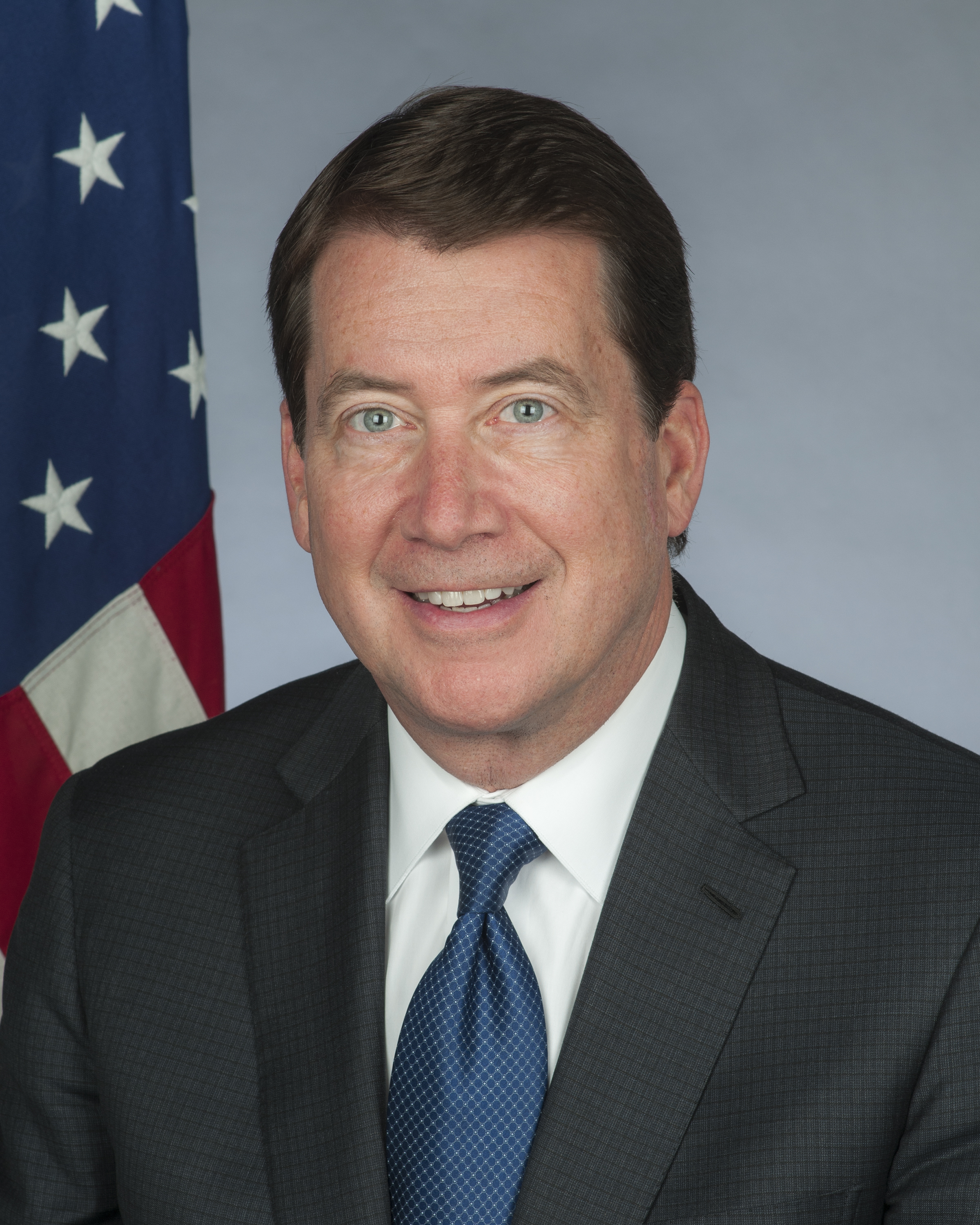 William F. “Bill” Hagerty IV, U.S. Ambassador to Japan